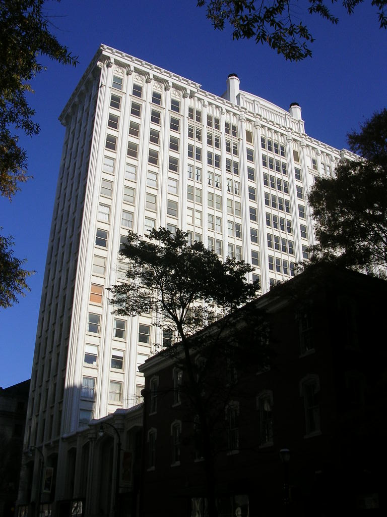 The Healey Building at 57 Forsyth Street NW, Atlanta, Georgia, USA. National Register ref #77000429. 33°45′21.5″N 84°23′23.5″W / 33.755972°N 84.389861°W